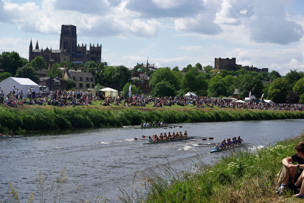 Durham regatta Univ College Durham v's Newcastle Uni